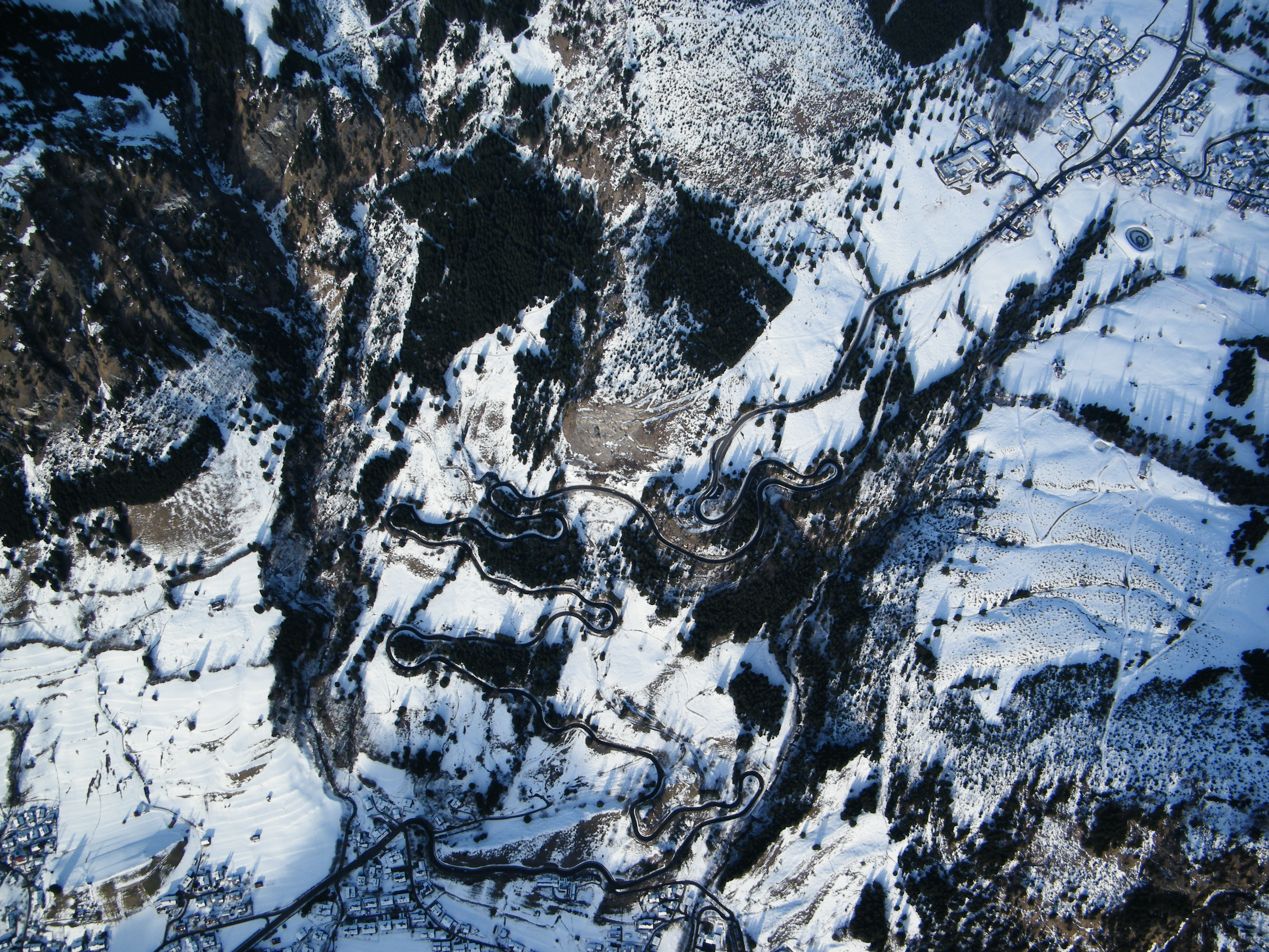 Oberjochpass near Bad Hindelang